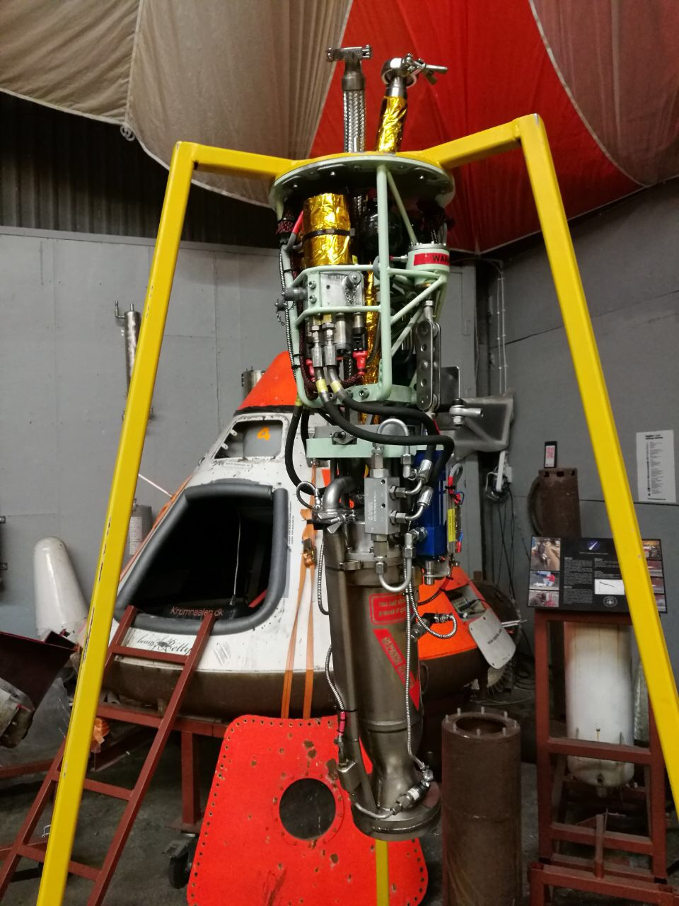 BPM-5 Engine gimbal at the Copenhagen Suborbitals workshop